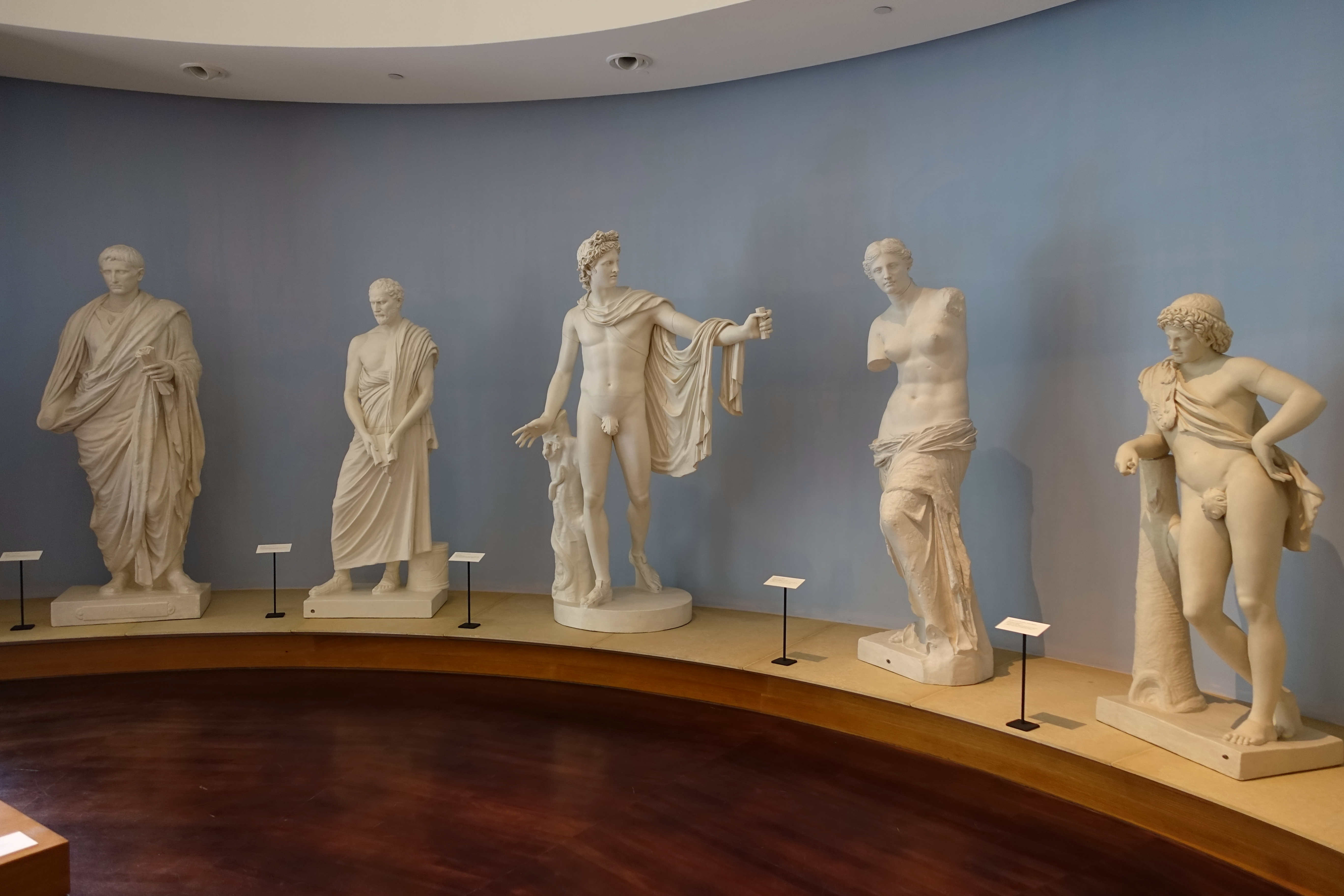 Exhibit in the Blanton Museum of Art - Austin, Texas, USA. This work is old enough so that it is in the public domain.